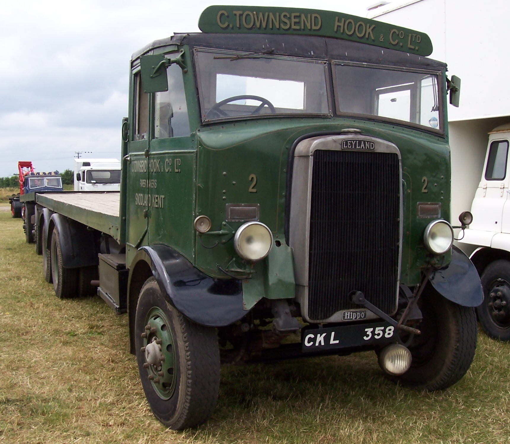 1935 Leyland Hippo (DVLA) first registered 1 November 1935